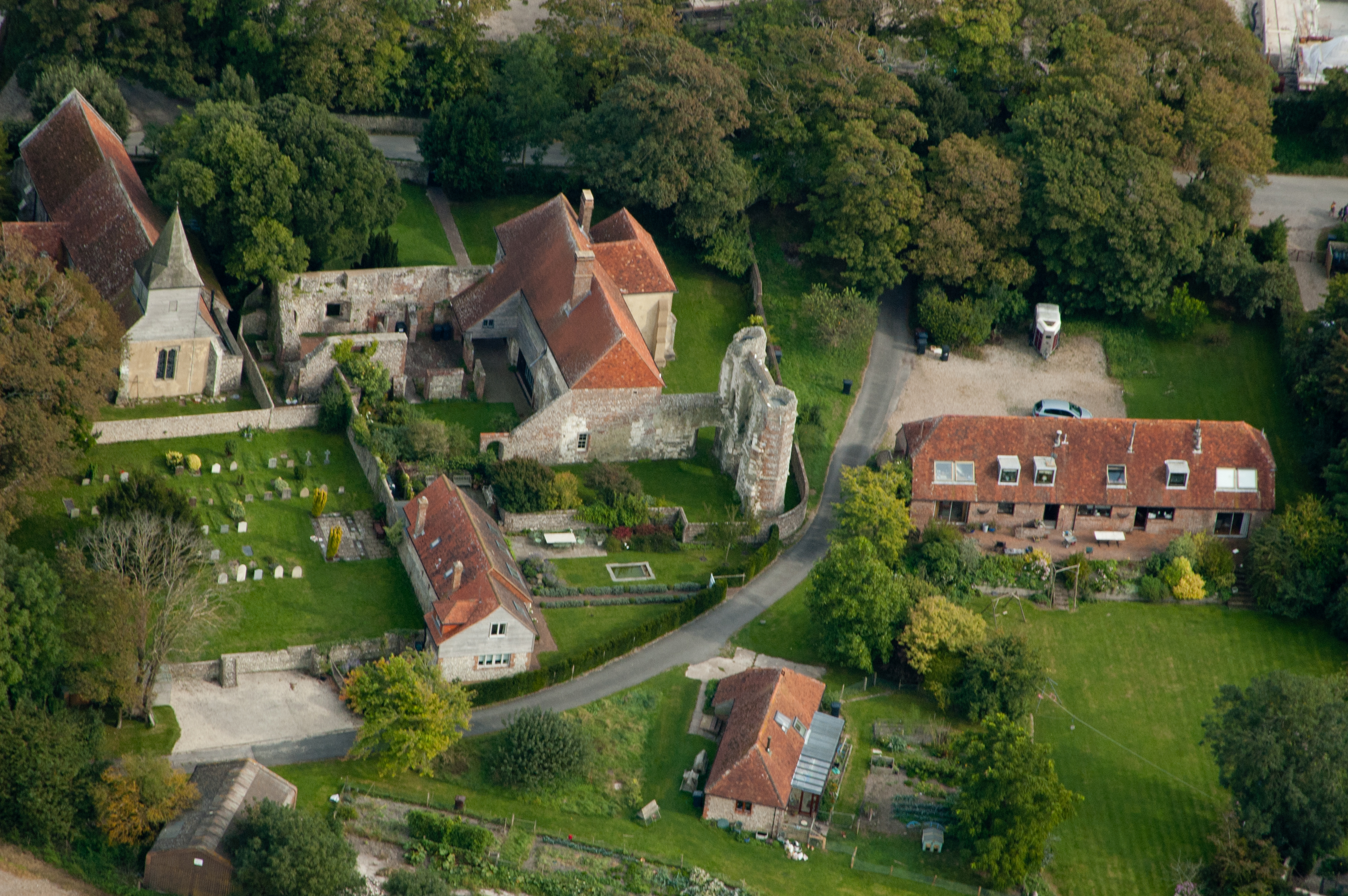 Aerial View of the ruins of Wilmington Priory, The Street, Long Man, Wealden, East Sussex